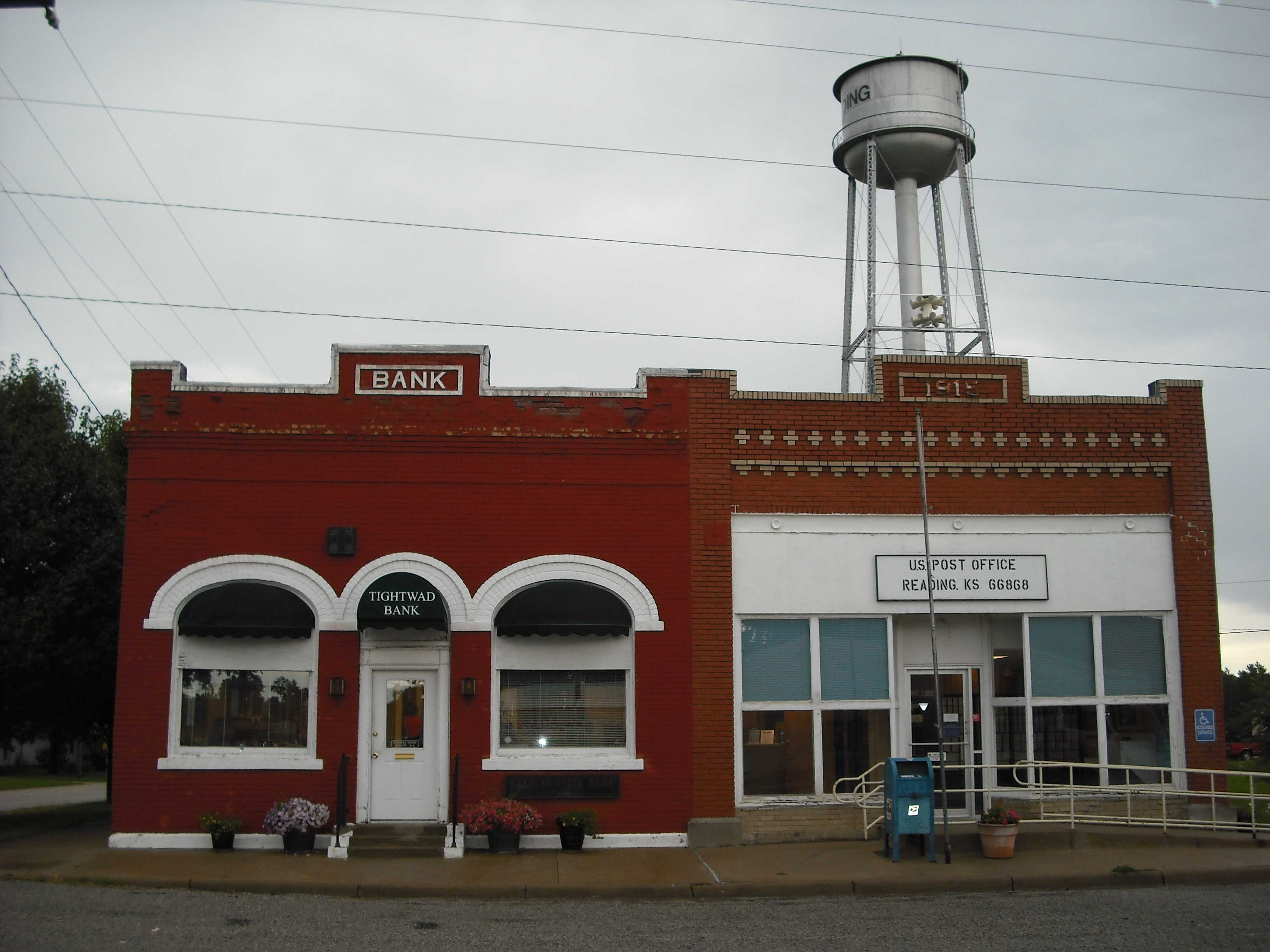 The Reading post office (right), water tower and Tightwad Bank.